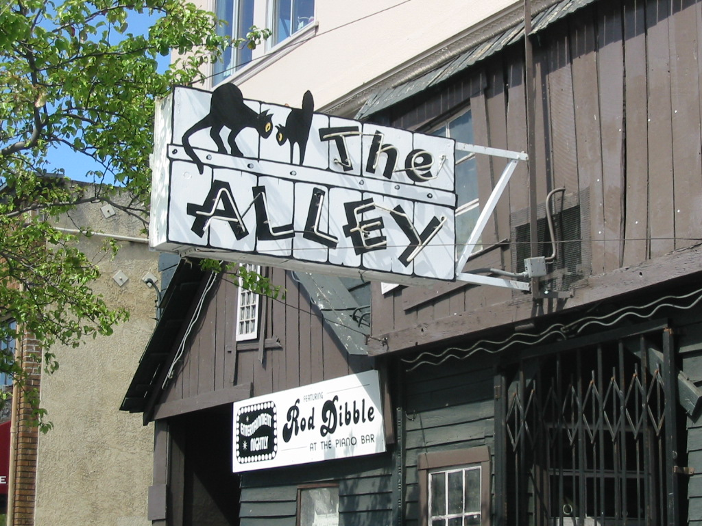 Photograph of the facade and signage of The Alley, a piano bar in Oakland, California.